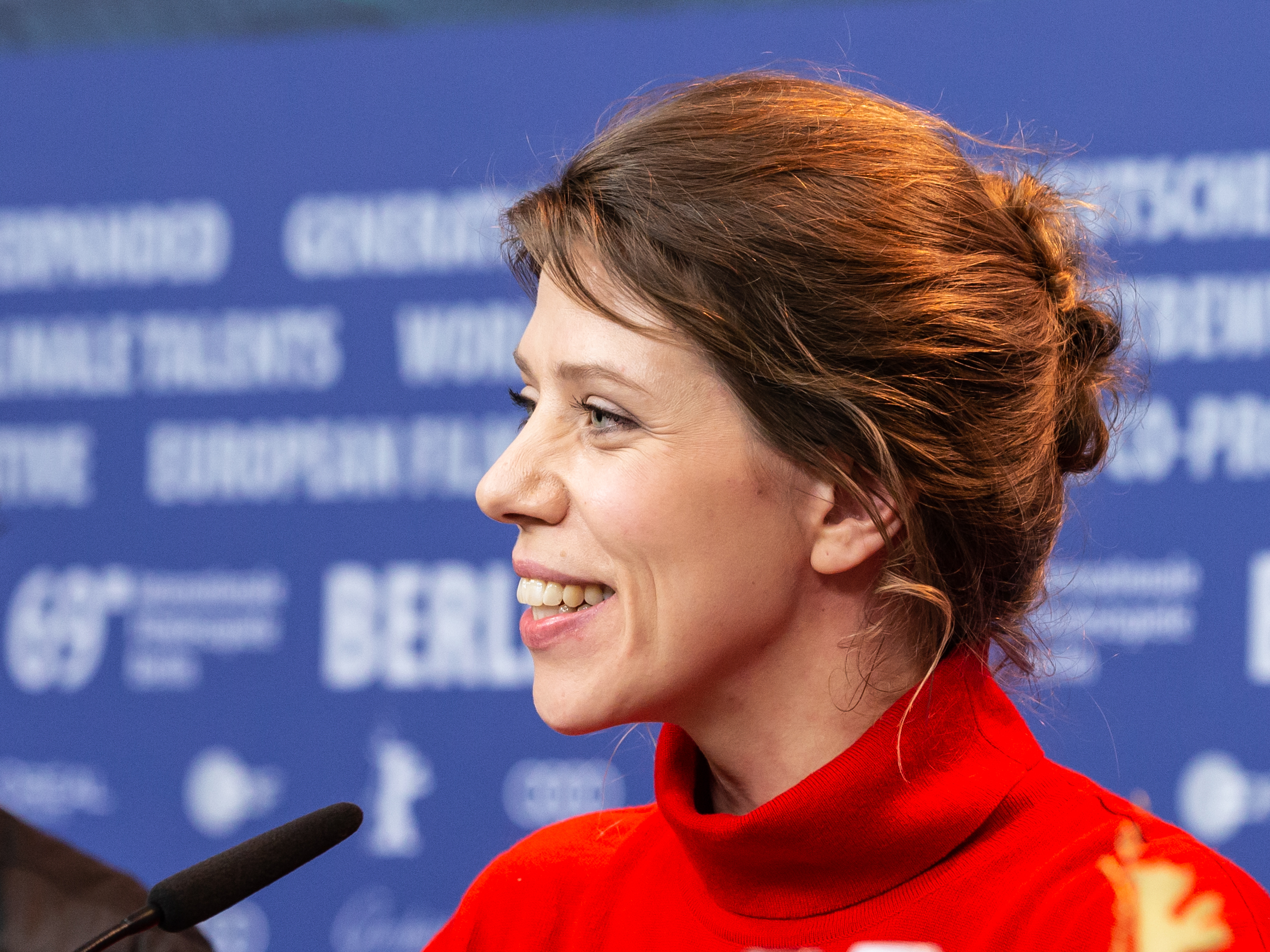 Film director Nora Fingscheidt at the Berlinale 2019